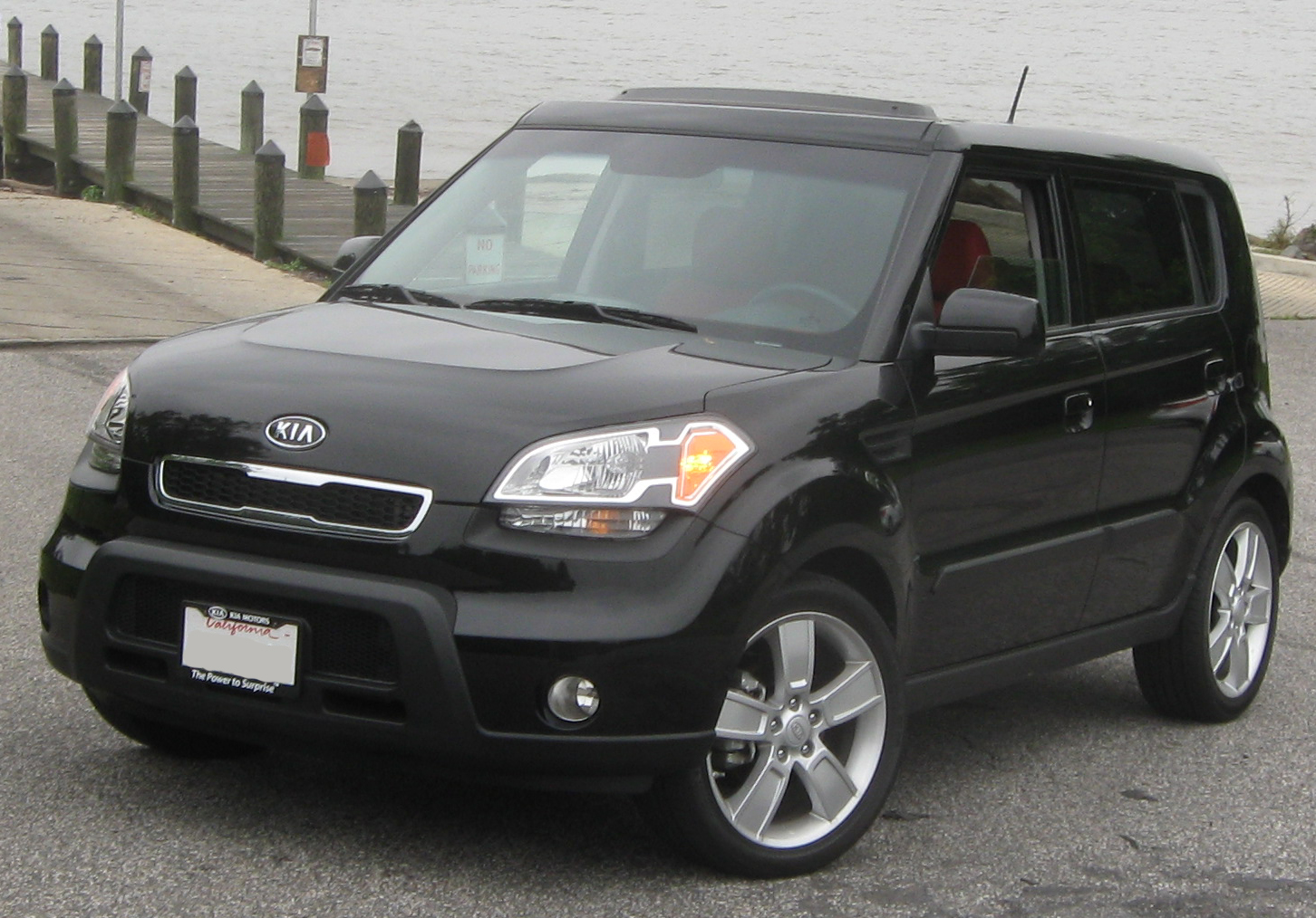 2010 Kia Soul photographed in Marshall Hall, Maryland, USA.